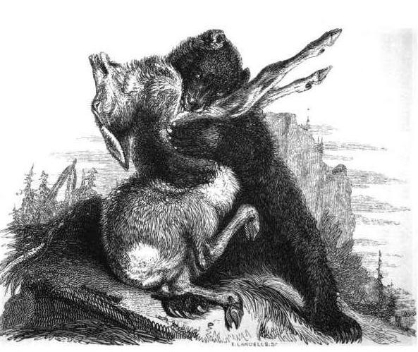 Illustration of black bear killing elk in Natural History of Quadrupeds By Frederic Shoberl Edition: 2 Published by J. Harris, 1834 279 pages